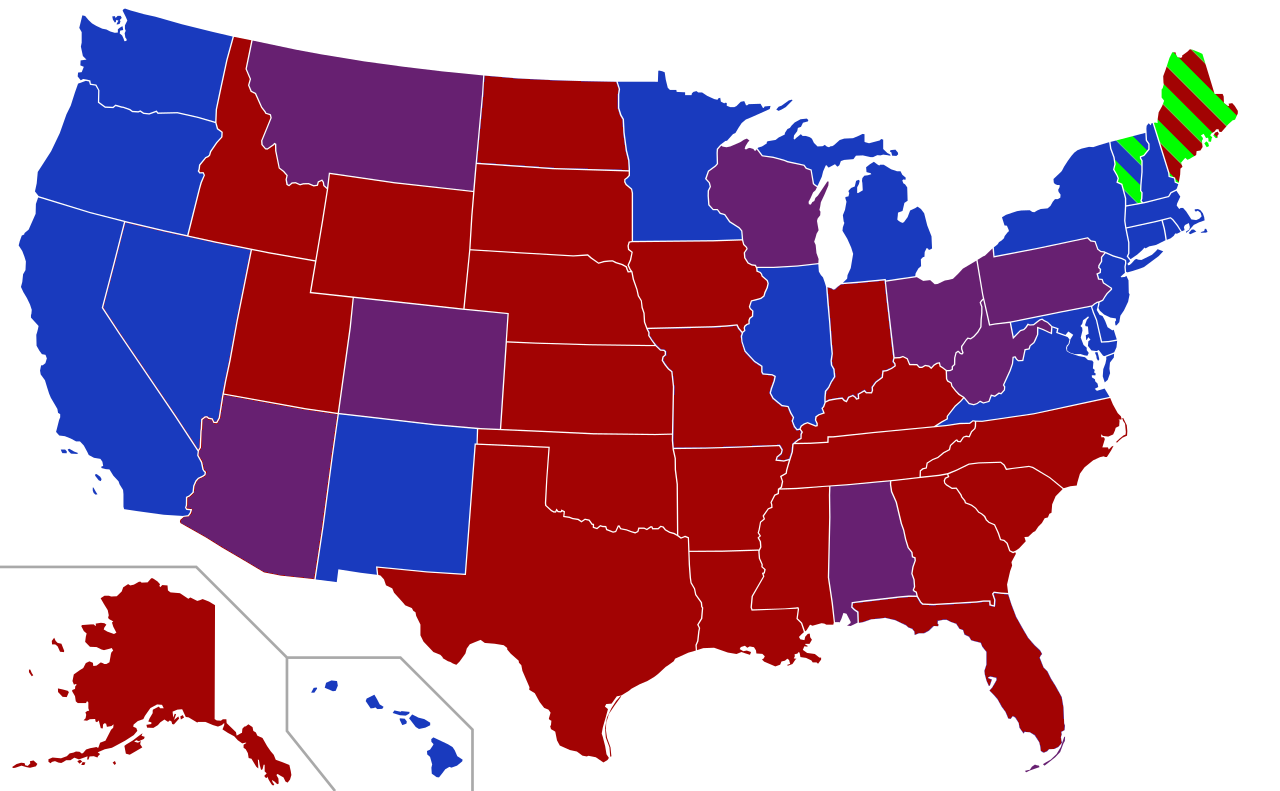 Map of senators as of Jan 3, 2019